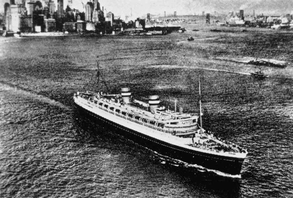 Nieuw Amsterdam in New York